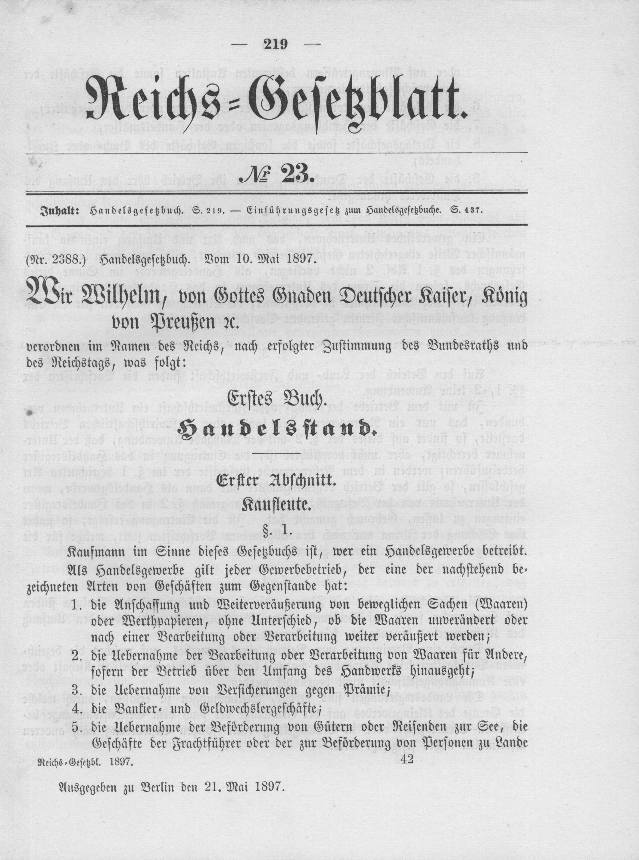 Scan from the Imperial Law Gazette of Germany, 1897